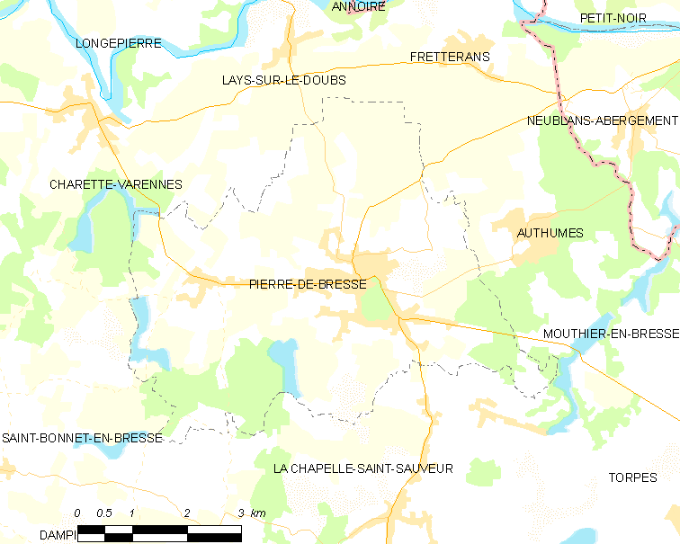 Map of French municipality